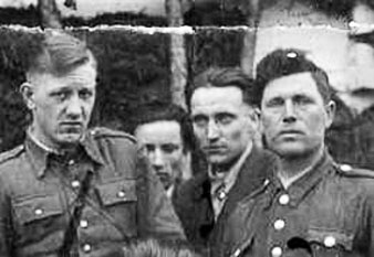 Leon Taraszkiewicz (1925-1947) – Polish military, partisan of anti-communist underground after WW II